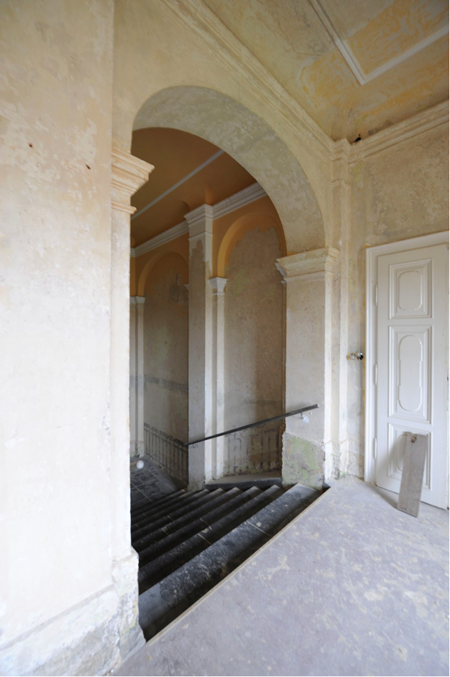 Staircase Mansion Brandis